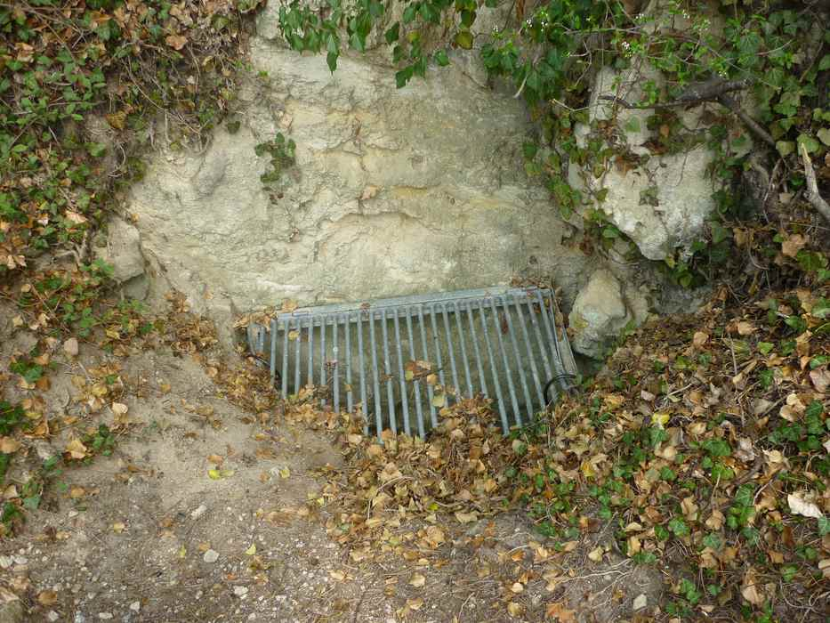 Entry of the east part of Höhlturm cave in lower Austria